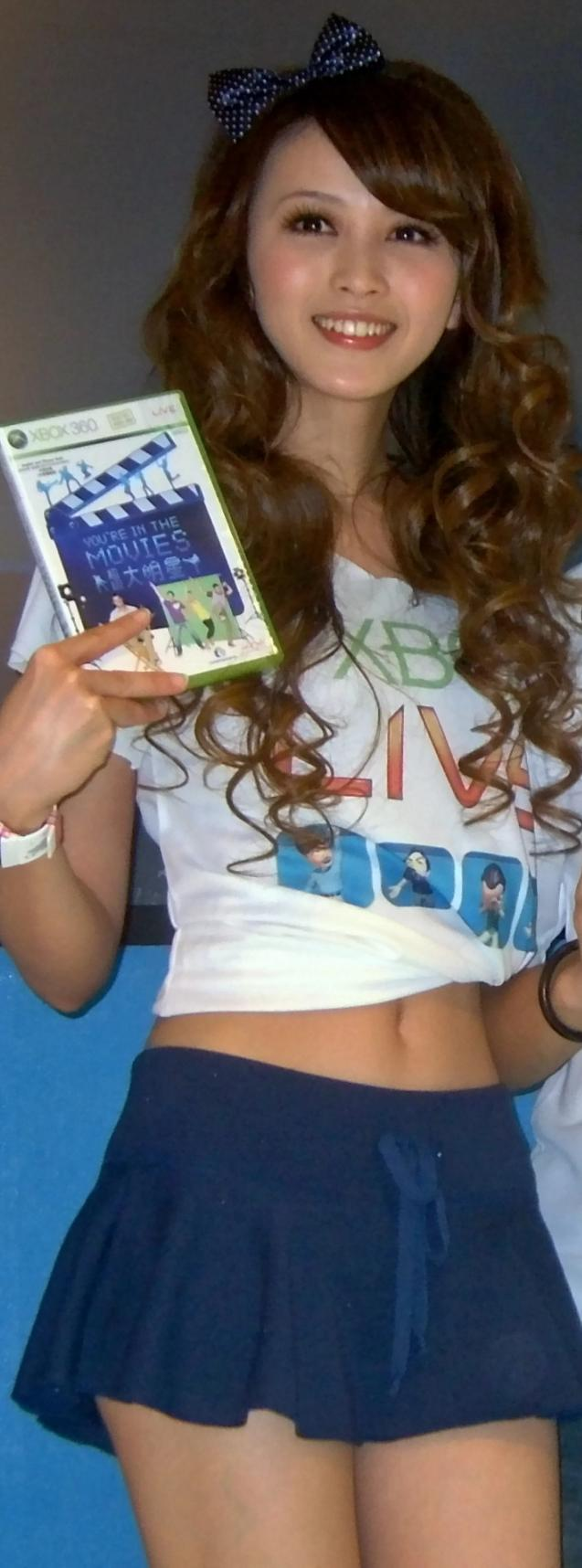 2008 Taipei IT Month: 馮媛甄.